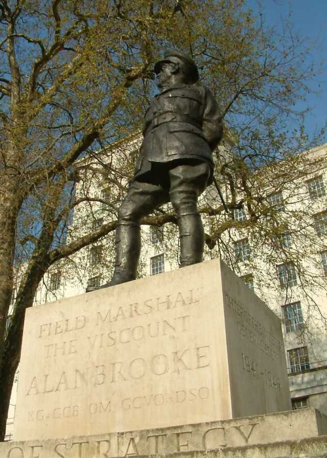 Alan Brooke - Field Marshal The Viscount - Statue - MOD - Whitehall - London - 240404